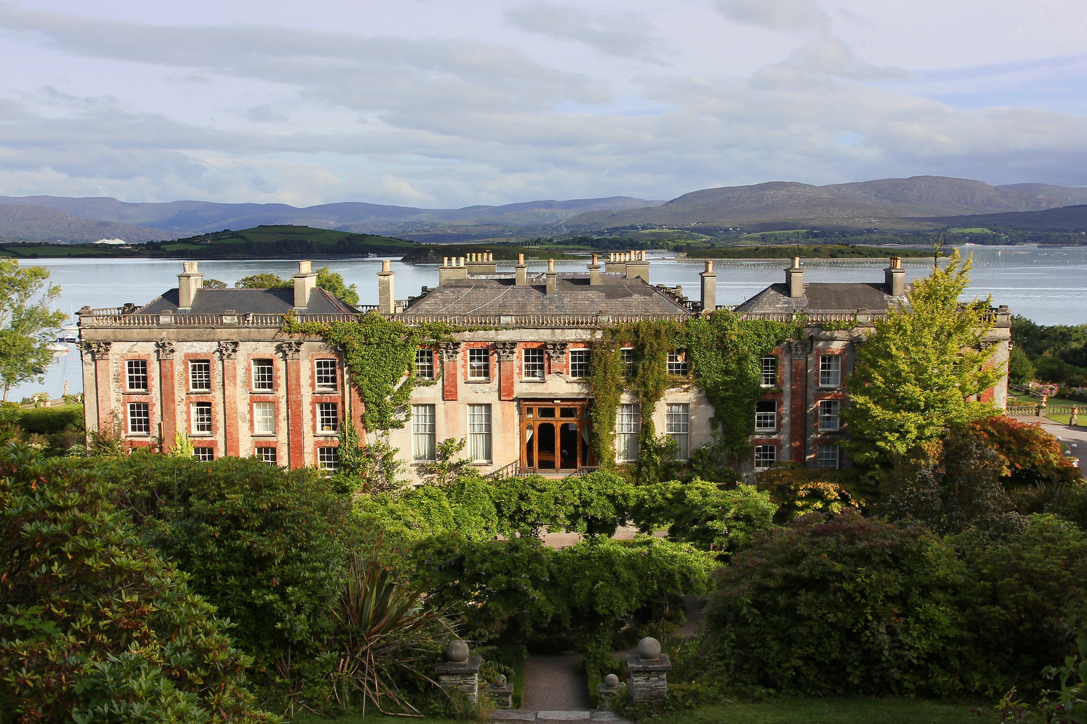 Bantry House constructed in about 1700 on the South side of Bantry Bay